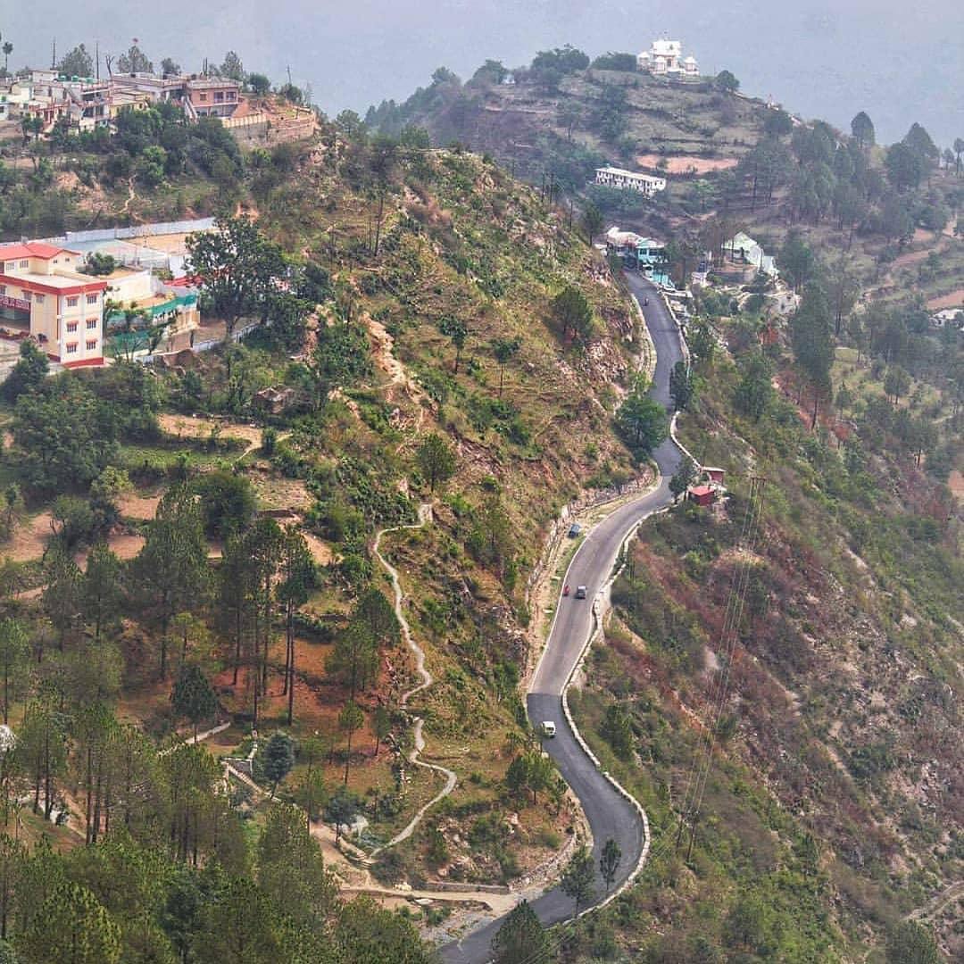 Chamba